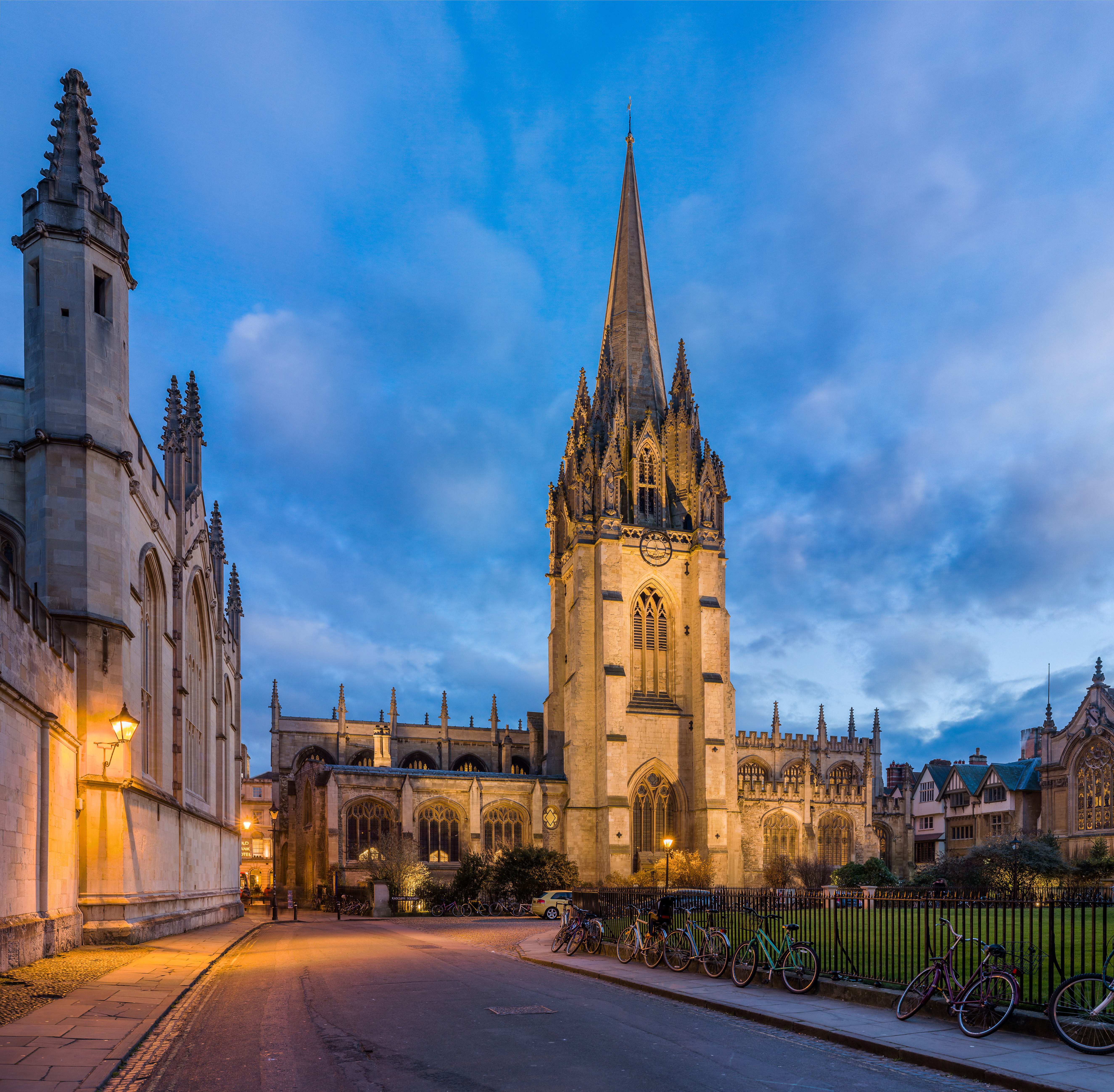 The University Church of St Mary the Virgin viewed from Radcliffe Square. The walls of All Souls College are visible on the left and the chapel of Brasenose College on the far right.